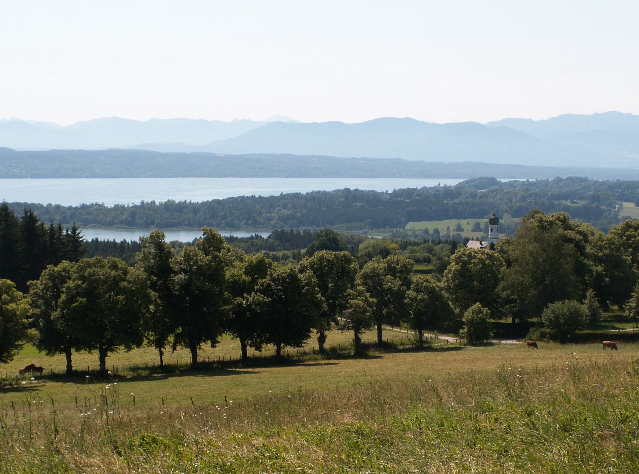 Ilkahöhe bei Tutzing - Blick auf den Starnberger See